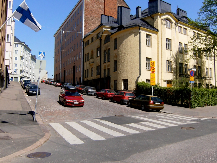 The crossroad of Harjukatu and Helsinginkatu, Helsinki, the Ebeneser building on the right